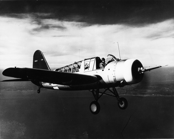 PictionID:40959896 - Catalog:Array - Title:Array - Filename:16_000185 Vought OS2U-1 1714 VO-3 3-O-4 USS Mississippi USN.tif - - Ray Wagner was Archivist at the San Diego Air and Space Museum for several years and is an author of several books on aviation --- ---Please Tag these images so that the information can be permanently stored with the digital file.---Repository: San Diego Air and Space Museum